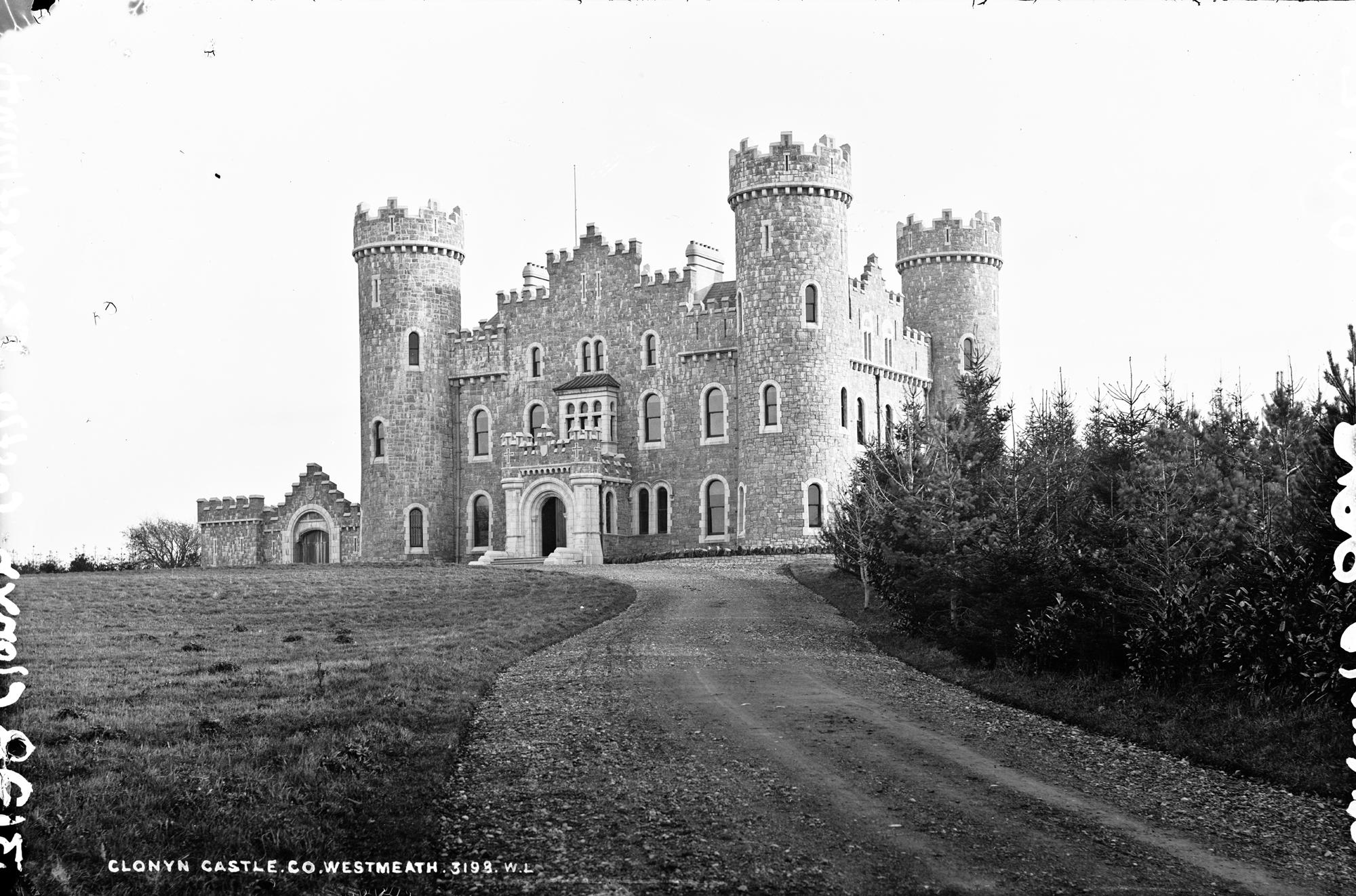 Charming Clonyn Castle brings our week to a close. As the location for the 'famous' novel "The Valley of the Squinting Windows' there are lots of windows to squint through in this fine pile. Is it still there and if so in what condition? Thanks to our typically helpful contributors, we know that Clonyn Castle is indeed standing, and in fact remains a private home. We also learned of it's temporary use, after WWII, as a home for recuperating children who had survived the holocaust... Photographer: Robert French Collection: Lawrence Photograph Collection Date: between ca. 1865-1914 NLI Ref: L_CAB_03198 You can also view this image, and many thousands of others, on the NLI’s catalogue at